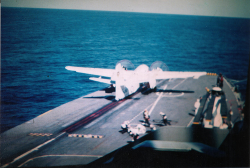 A S-2E Tracker being launched from HMAS Melbourne in 1976.